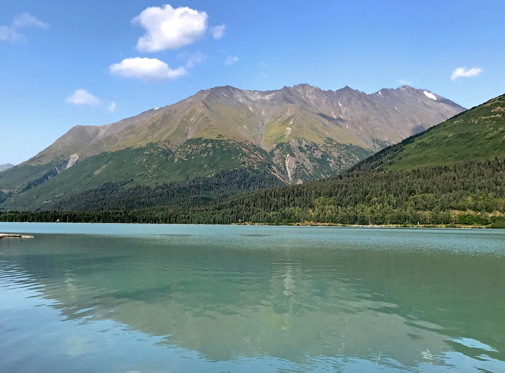 Andy Simons Mountain across Kenai Lake